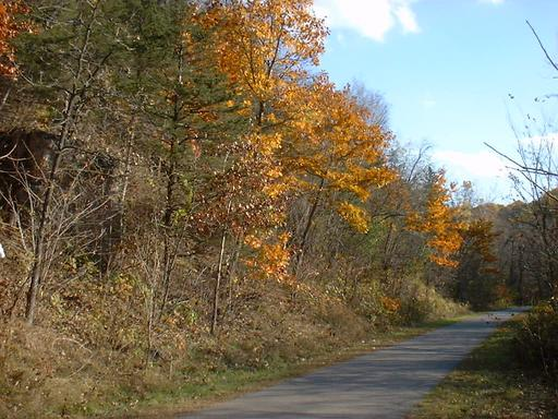 Picture of the Cannon Valley Trail taken in fall 1999.